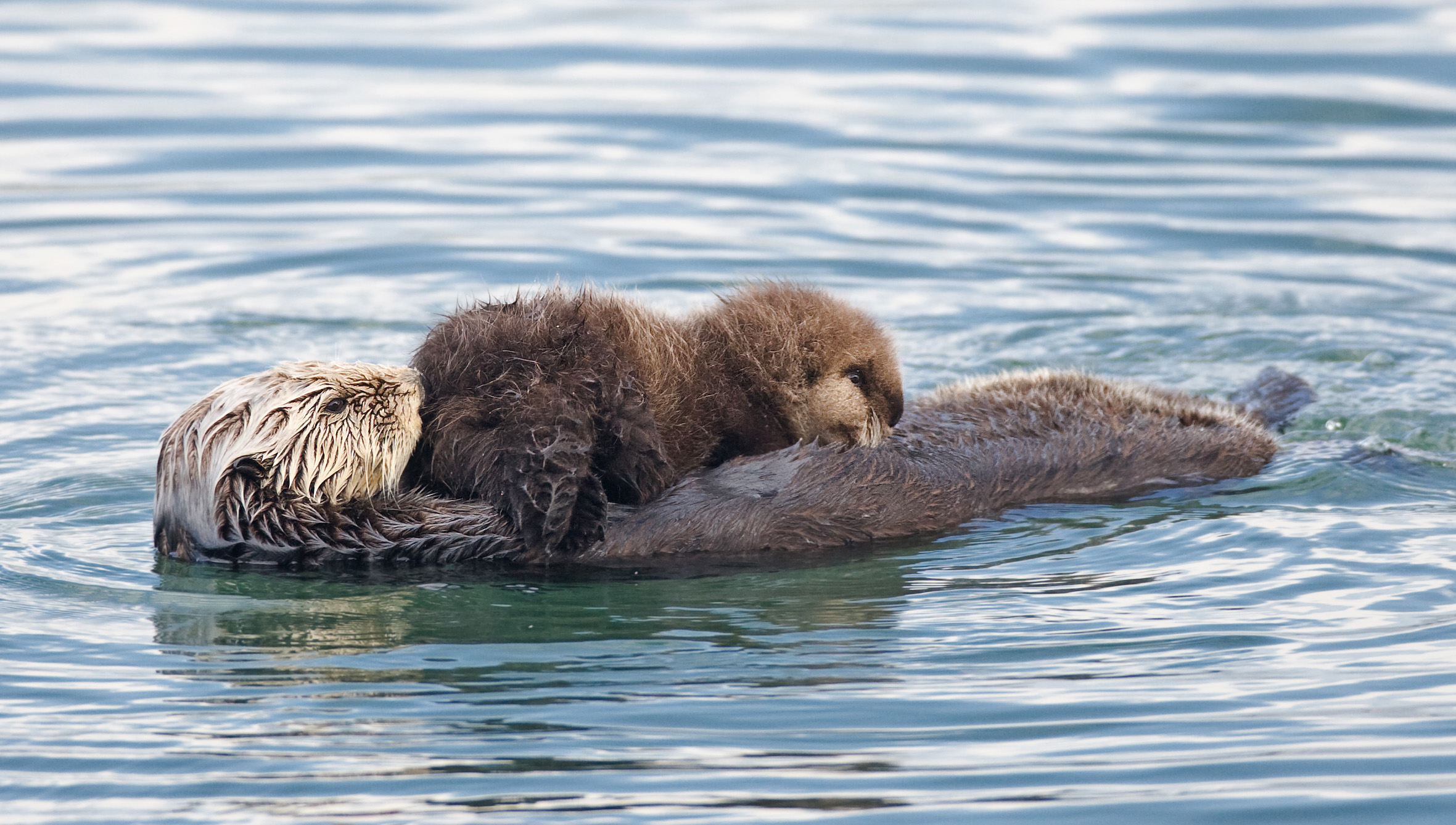 Sea otter (Enhydra lutris) mother with nursing pup in the Morro Bay harbor. Female sea otters have two abdominal nipples, and float on their backs to nurse their pups.